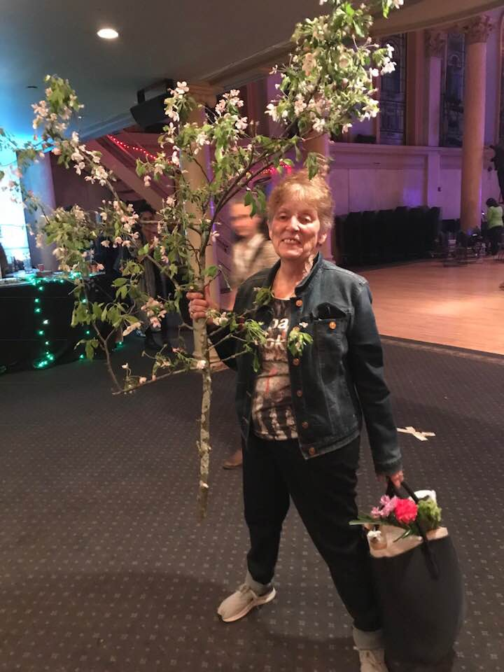 Spring 2018 Smash and Spurn Perf Photo Darby Smotherman